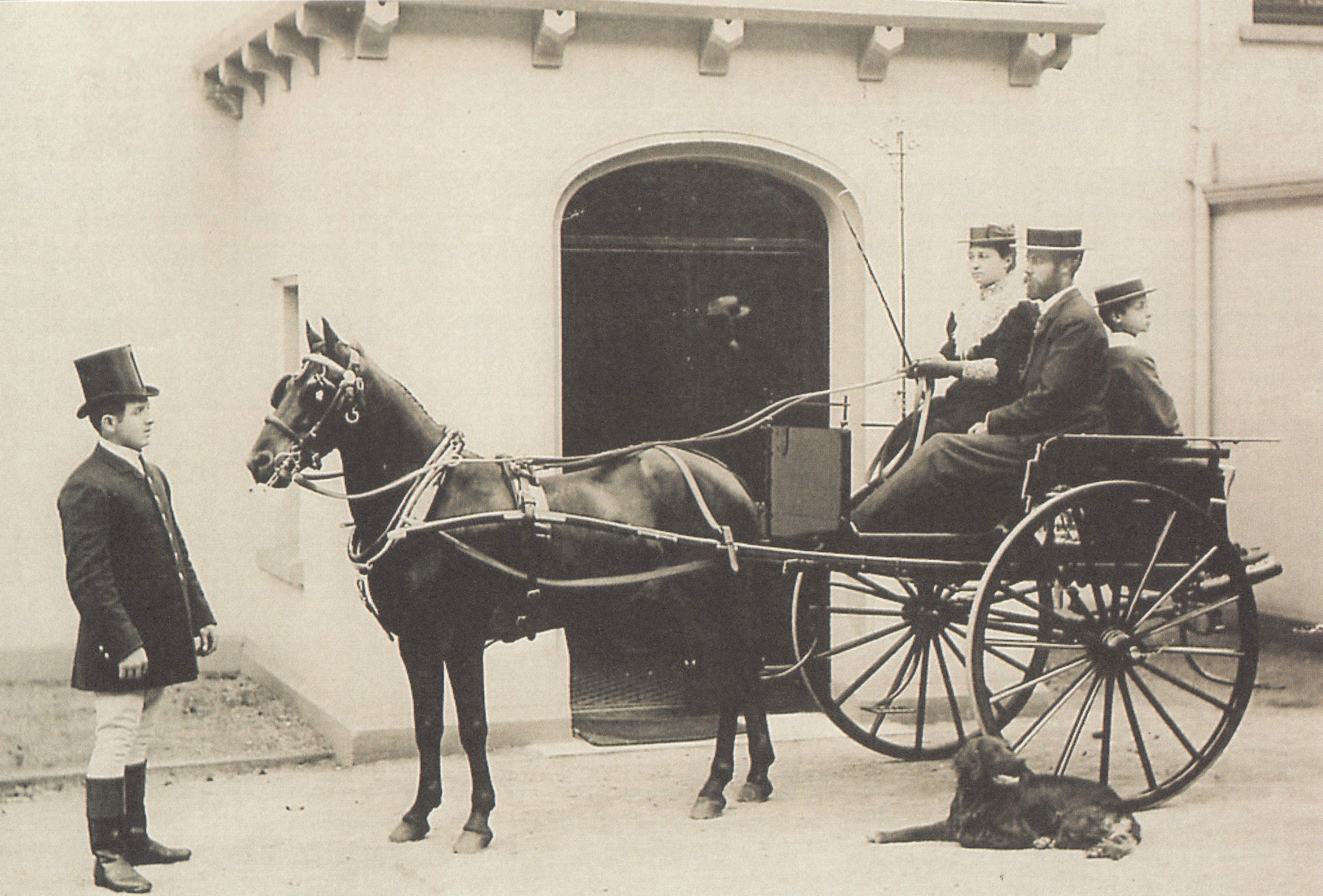 Joseph Lindley with family in a carriage